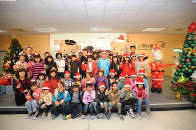 Deliver Love with THSR to remote village children